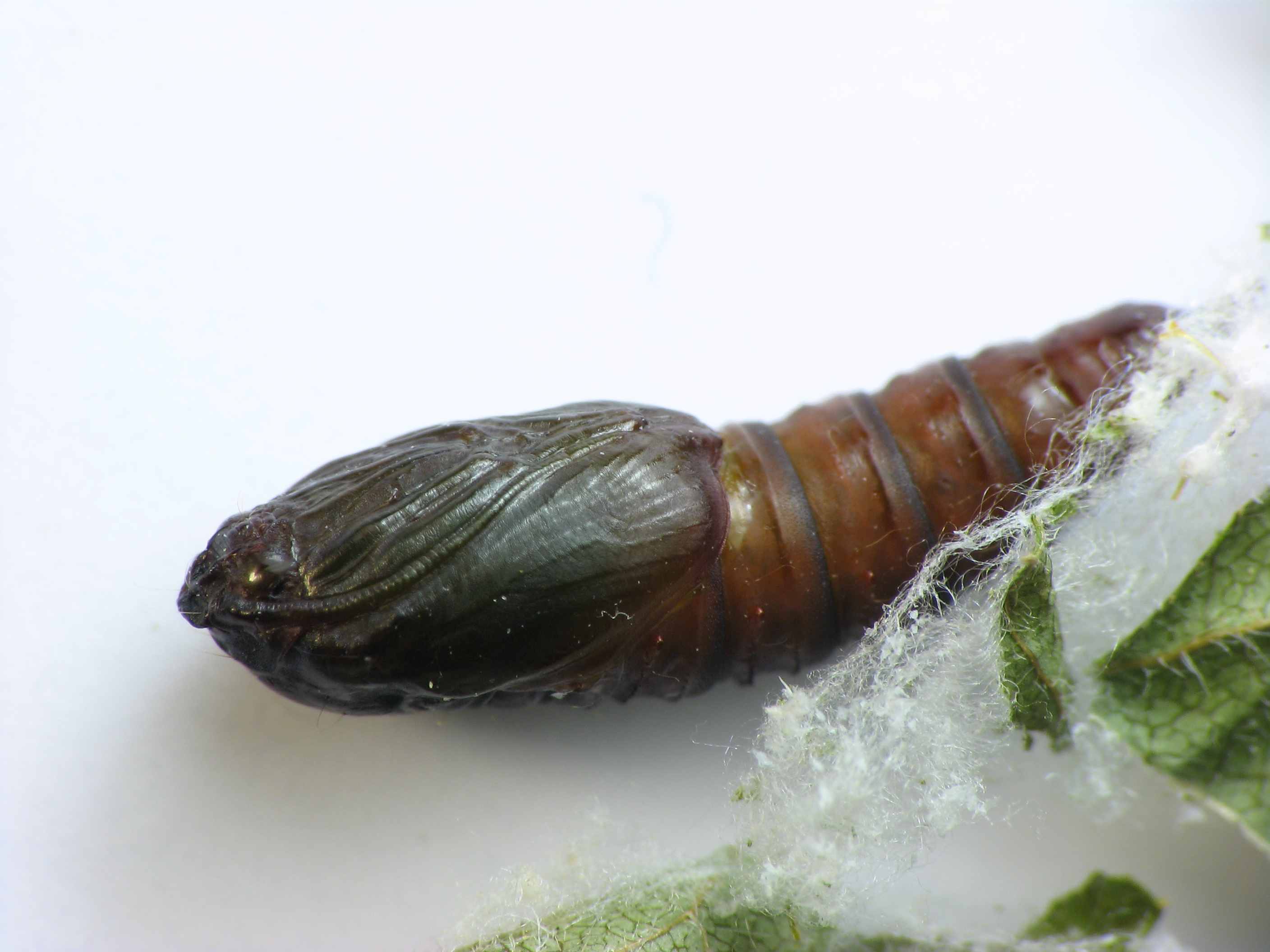 Pupa of tortricid moth, Choristoneura rosaceana (Oblique-banded Leafroller - Hodges#3635). Size: ~ 10 mm. Briar Bush Nature Center, Montgomery County, Pennsylvania, USA.